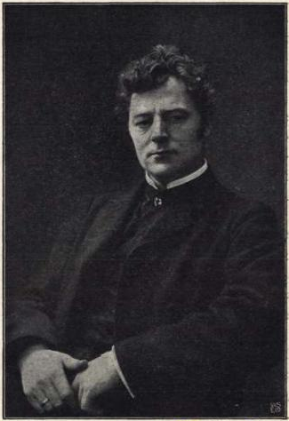 The Norwegian author Bernt Lie (1868–1916).